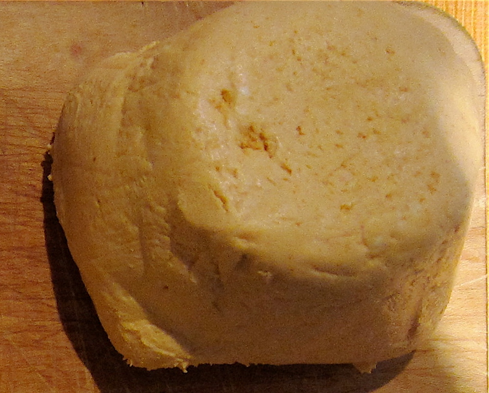 Afuega'l pitu is an unpasteurised cow's milk cheese from Asturias, one of two Asturian cheeses